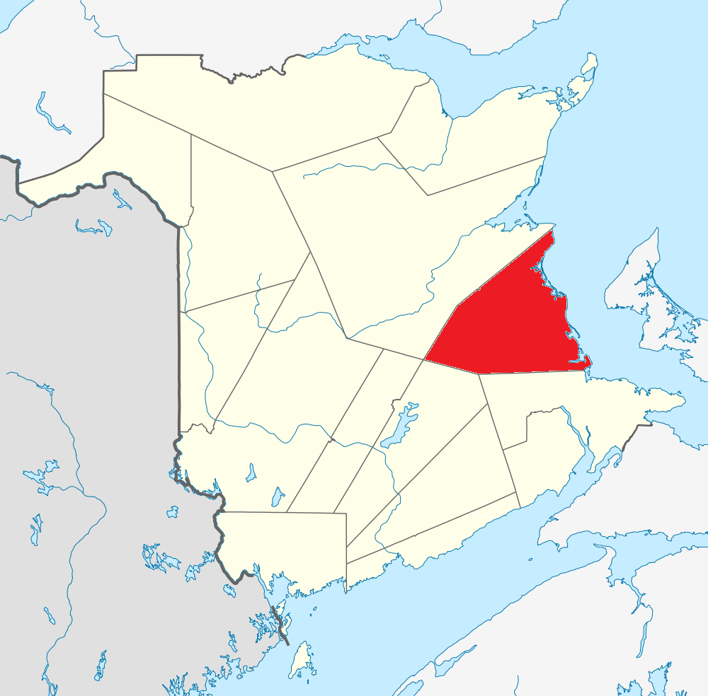 Map of New Brunswick highlighting Kent County